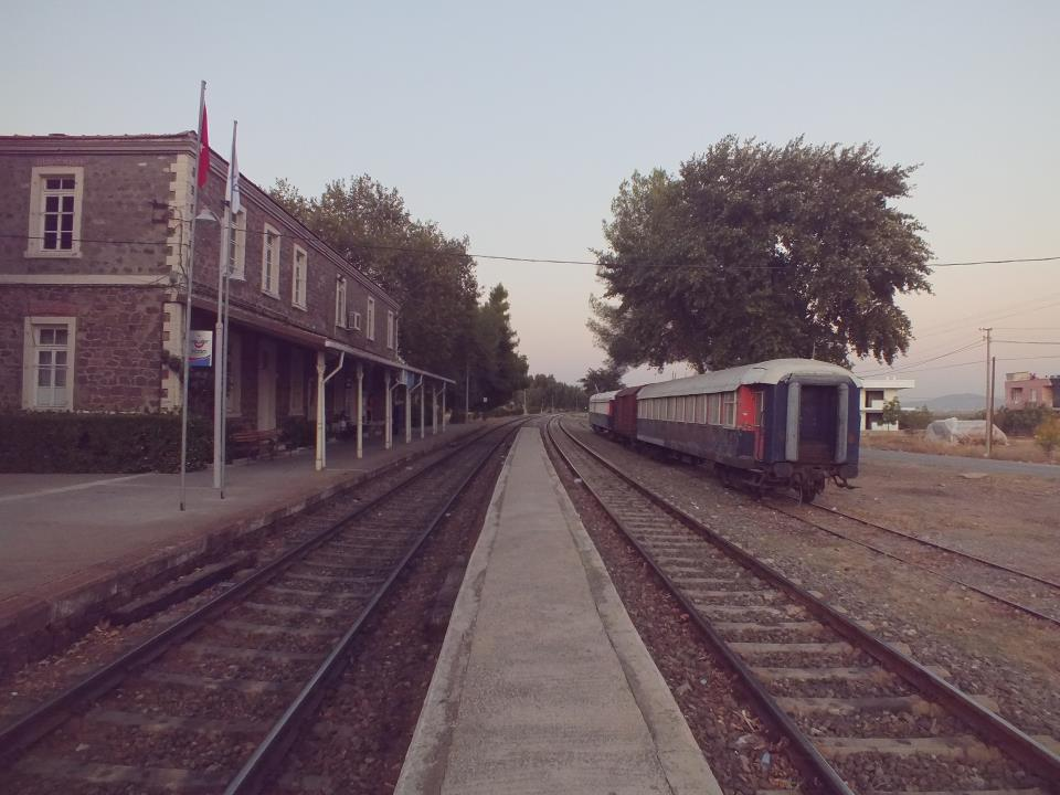 Pancar station before IZBAN's southern extension.